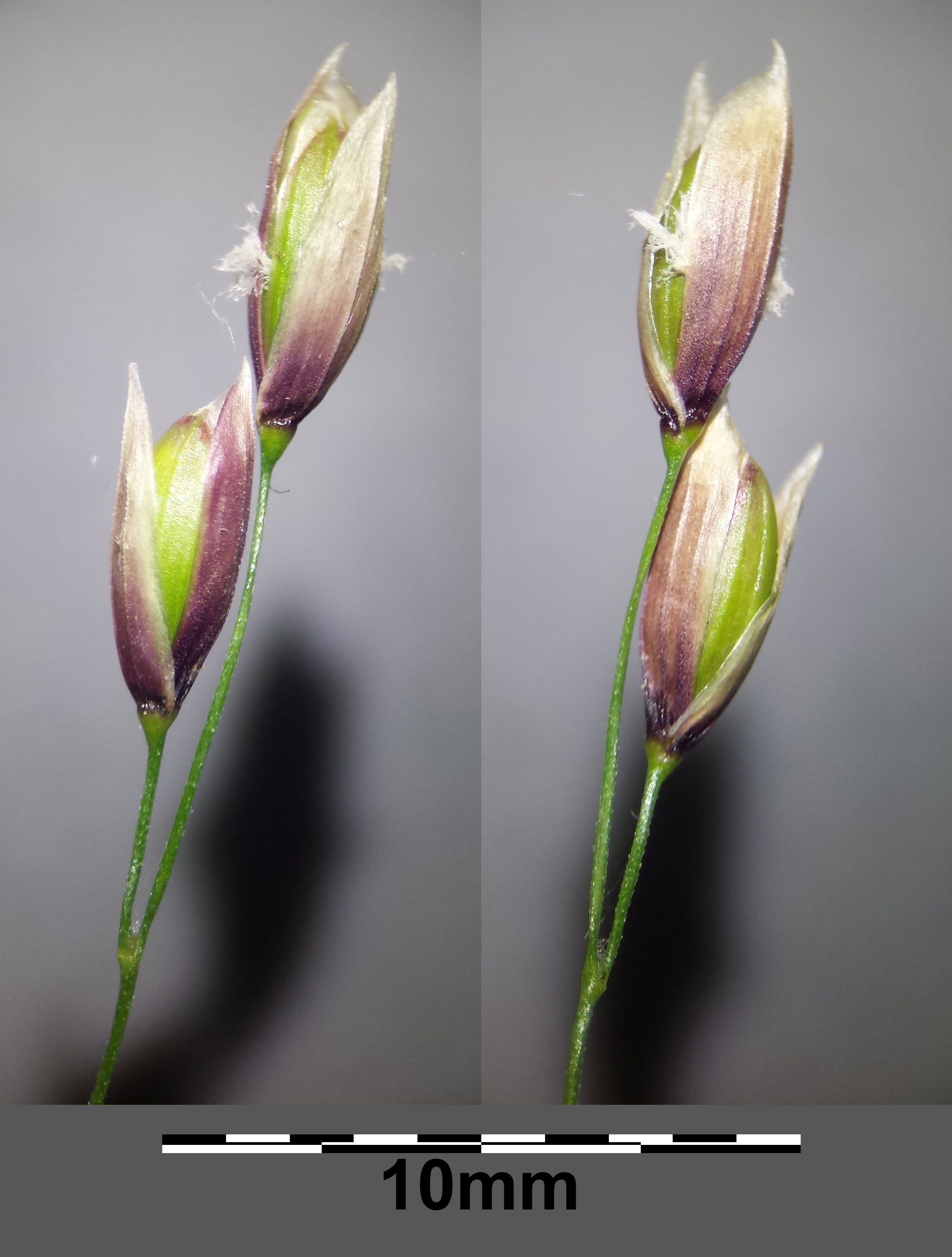 Spikelets Taxonym: Melica uniflora ss Fischer et al. EfÖLS 2008 ISBN 978-3-85474-187-9 Location: Praunsberger Wald near Niederhollabrunn, district Korneuburg, Lower Austria - ca. 300 m a.s.l. Habitat: dedicious forest